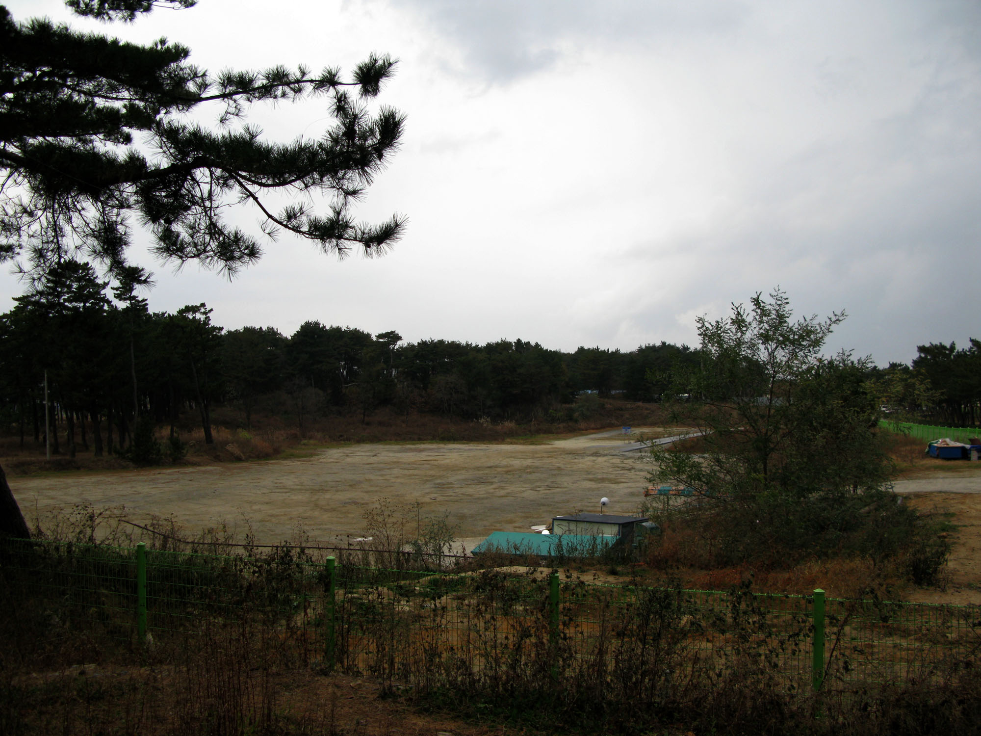 Yeongdong Line Gyeongpodae Station Site